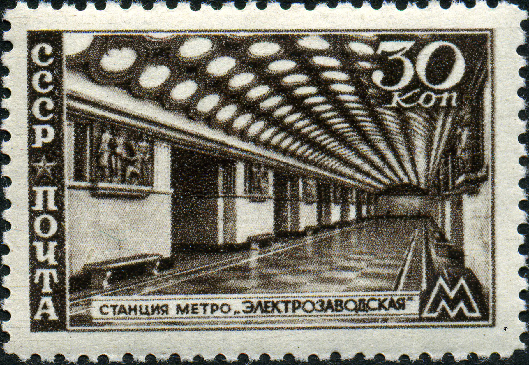 Stamp of the Soviet Union, Elektrozavodskaya (Moscow Metro station), 1947, CPA 1147.